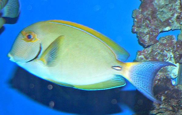 Photo of Acanthurus dussumieri at Birch Aquarium